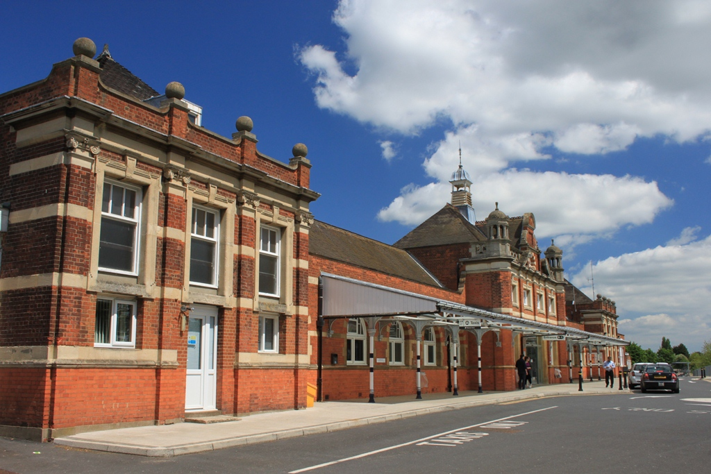 The old station buildings at Colchester in essex. These are on the town side of the station but the car park and bus stops are on the opposite side, served by a 1960s concrete entrance.